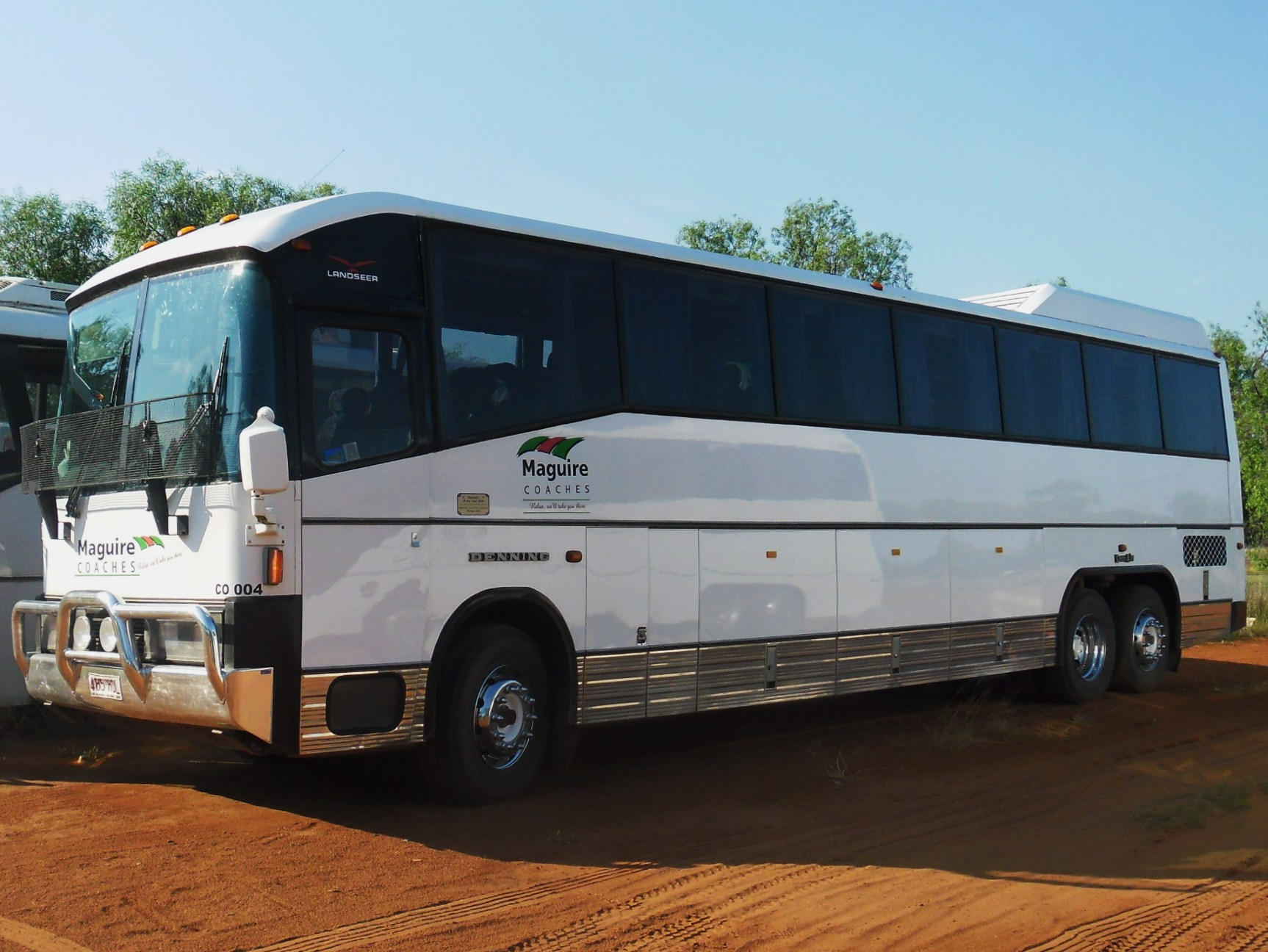 A Landseer coach owned by Maguire Coaches, Chinhcilla, Qld